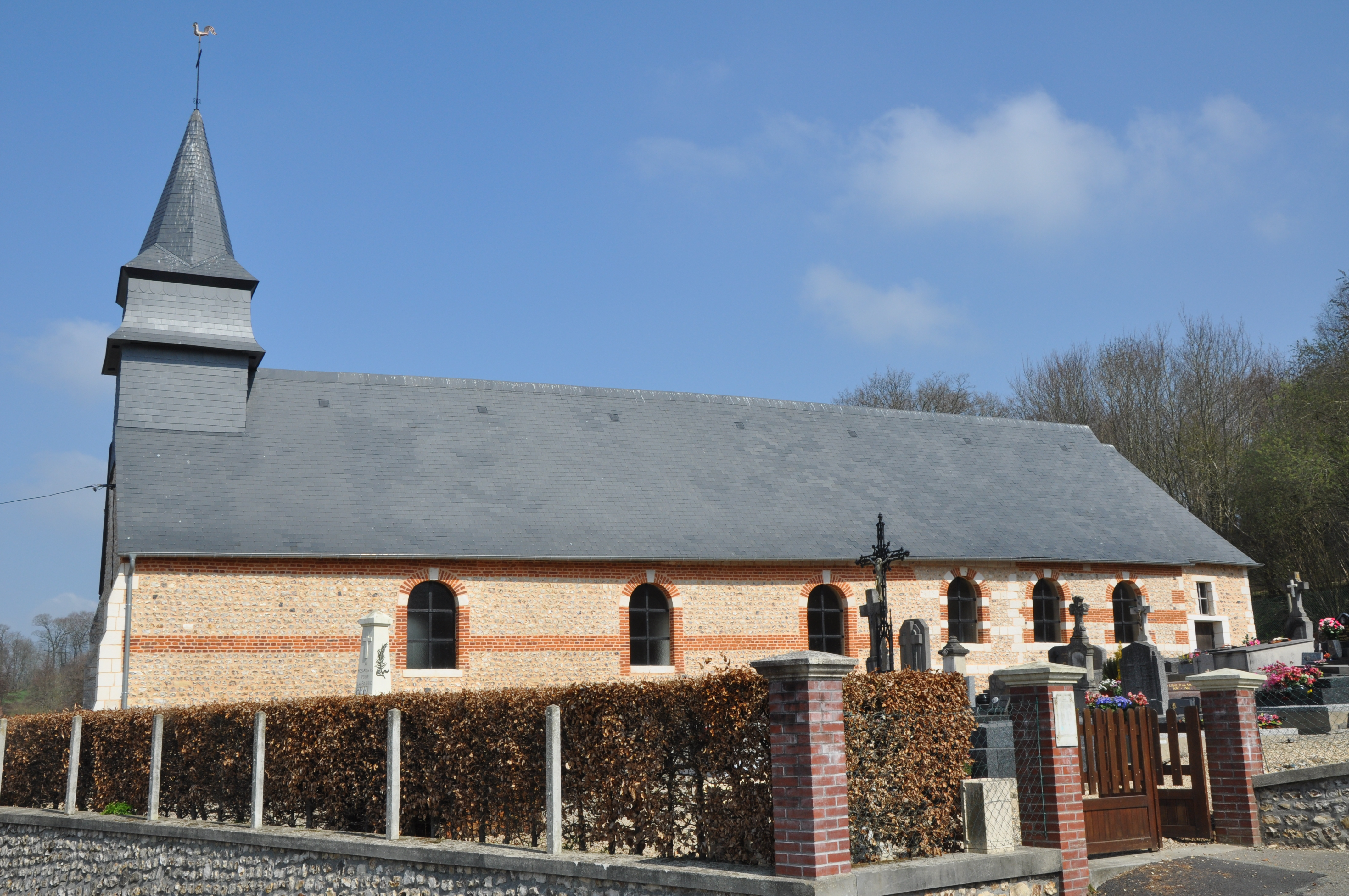 Church of Notre-Dame du Bec (France, Normandy)